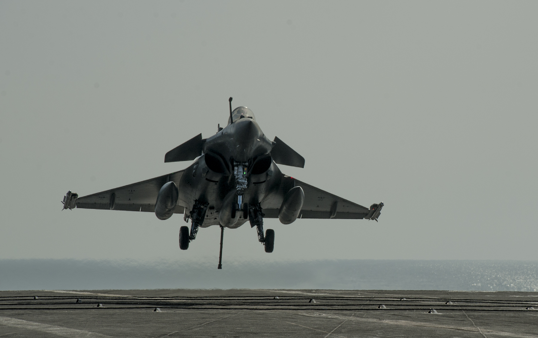 150303-N-TP834-245 ARABIAN GULF (Mar. 3, 2015) A French Rafale Marine aircraft of Squadron 11F deployed aboard the French nuclear powered aircraft carrier Charles de Gaulle (CDG) prepares to land during carrier qualifications aboard the U.S. nuclear powered aircraft carrier USS Carl Vinson (CVN 70). Carl Vinson is deployed as part of the Carl Vinson Strike Group supporting maritime security operations, strike operations in Iraq and Syria as directed, and theater security cooperation efforts in the U.S. 5th Fleet area of responsibility. (U.S. Navy photo by Mass Communication Specialist 2nd Class John Philip Wagner, Jr./Released)